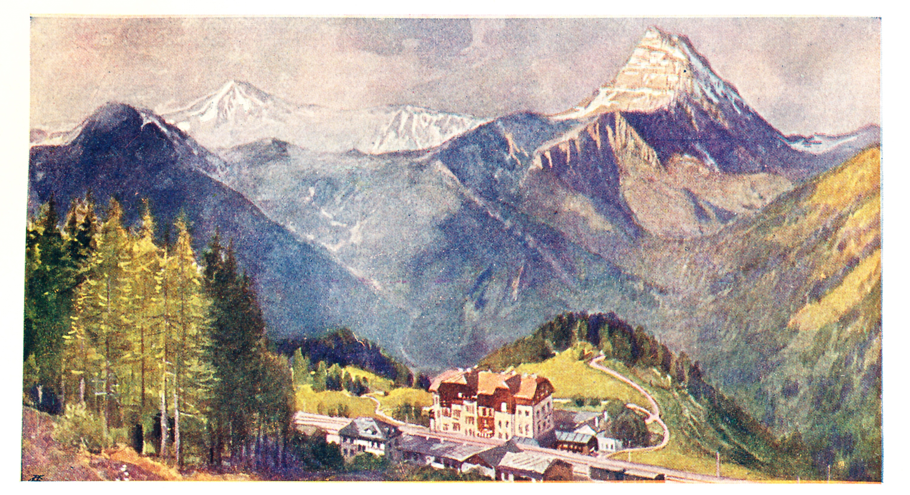 Anton Reckziegel